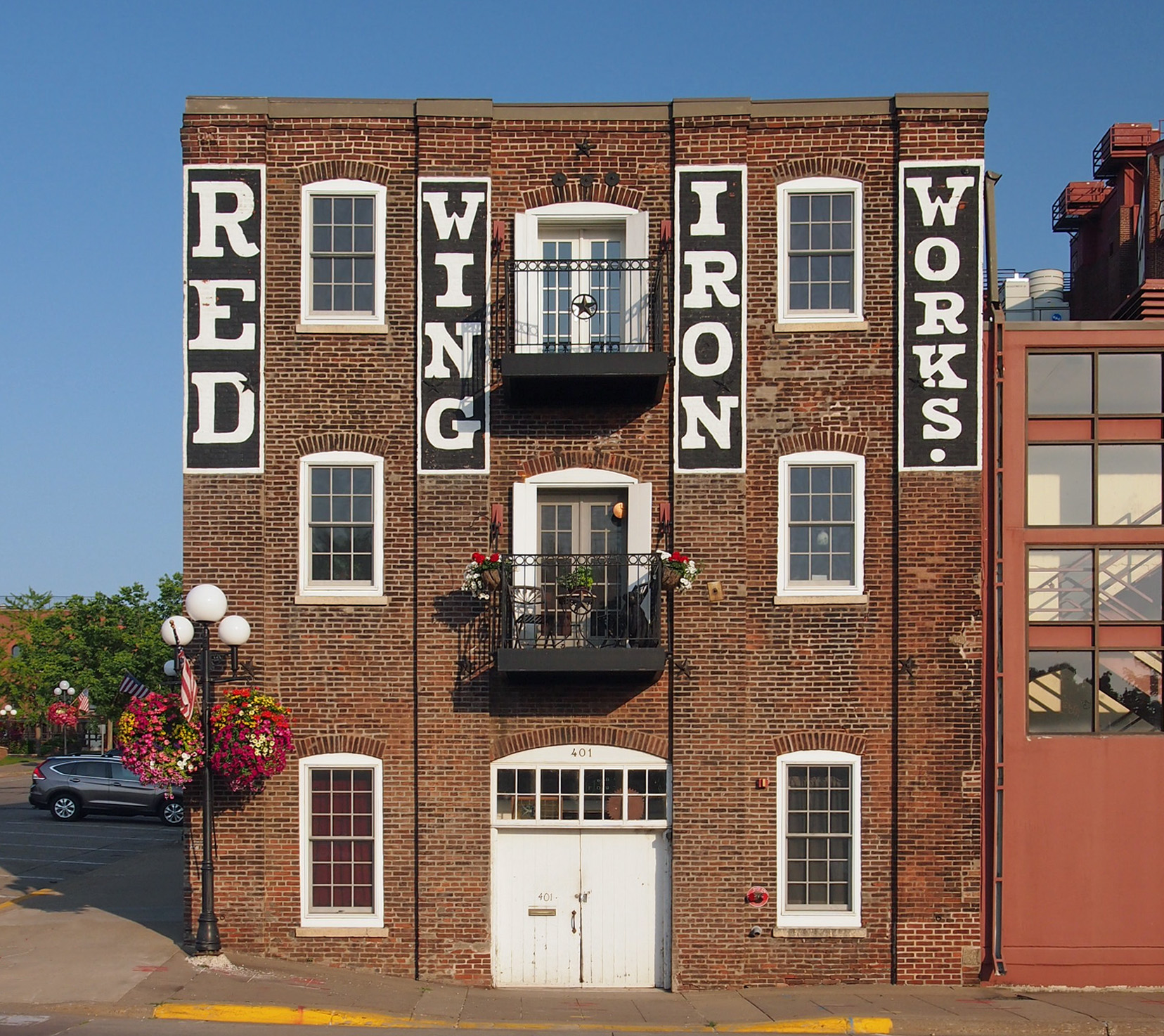 Red Wing Iron Works: 401 Levee Street, Red Wing, Minnesota, USA. Shot from the northwest near sundown in mid-summer.